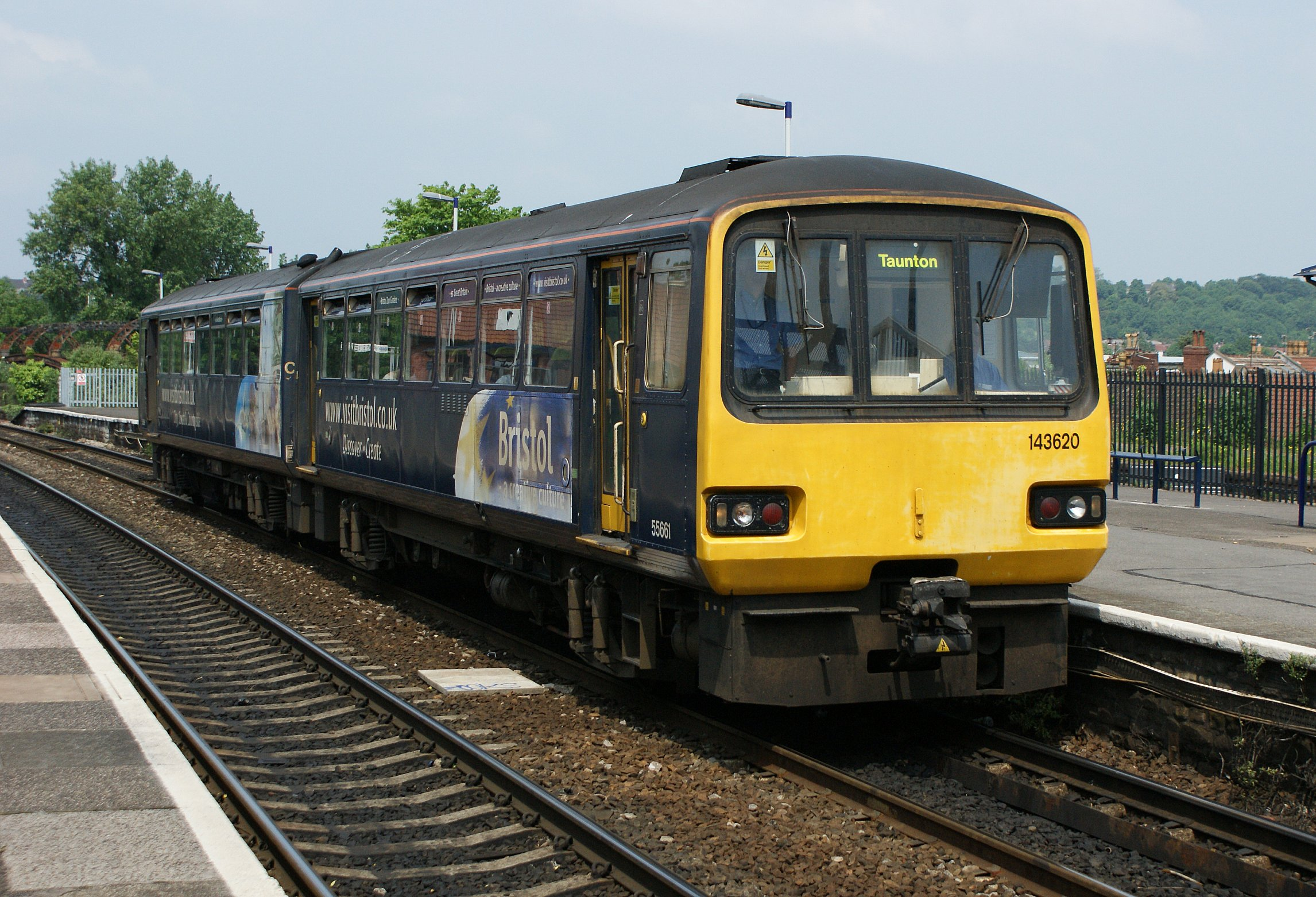 Alexander/Barclay Class 143 "Pacer" local passenger 2-car dmu No.143 620 of First Great Western in "Visit Bristol" promotional livery at Stapleton Road on a Cardiff - Bristol Temple Meads - Taunton service, 05/08.